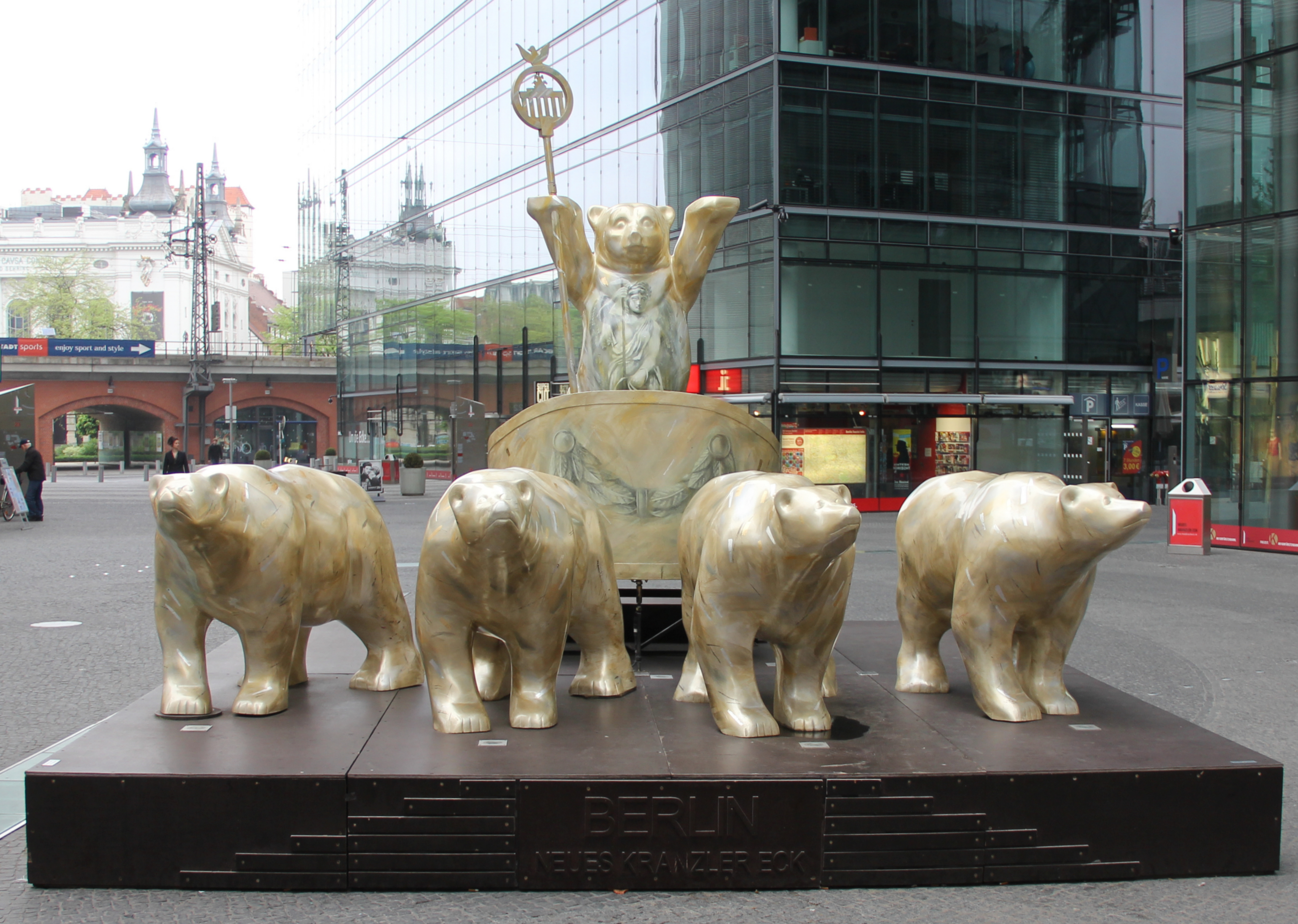 Sculptures, 10 Jahre Neues Kranzlereck, Kurfürstendamm 24, Berlin-Charlottenburg, Germany